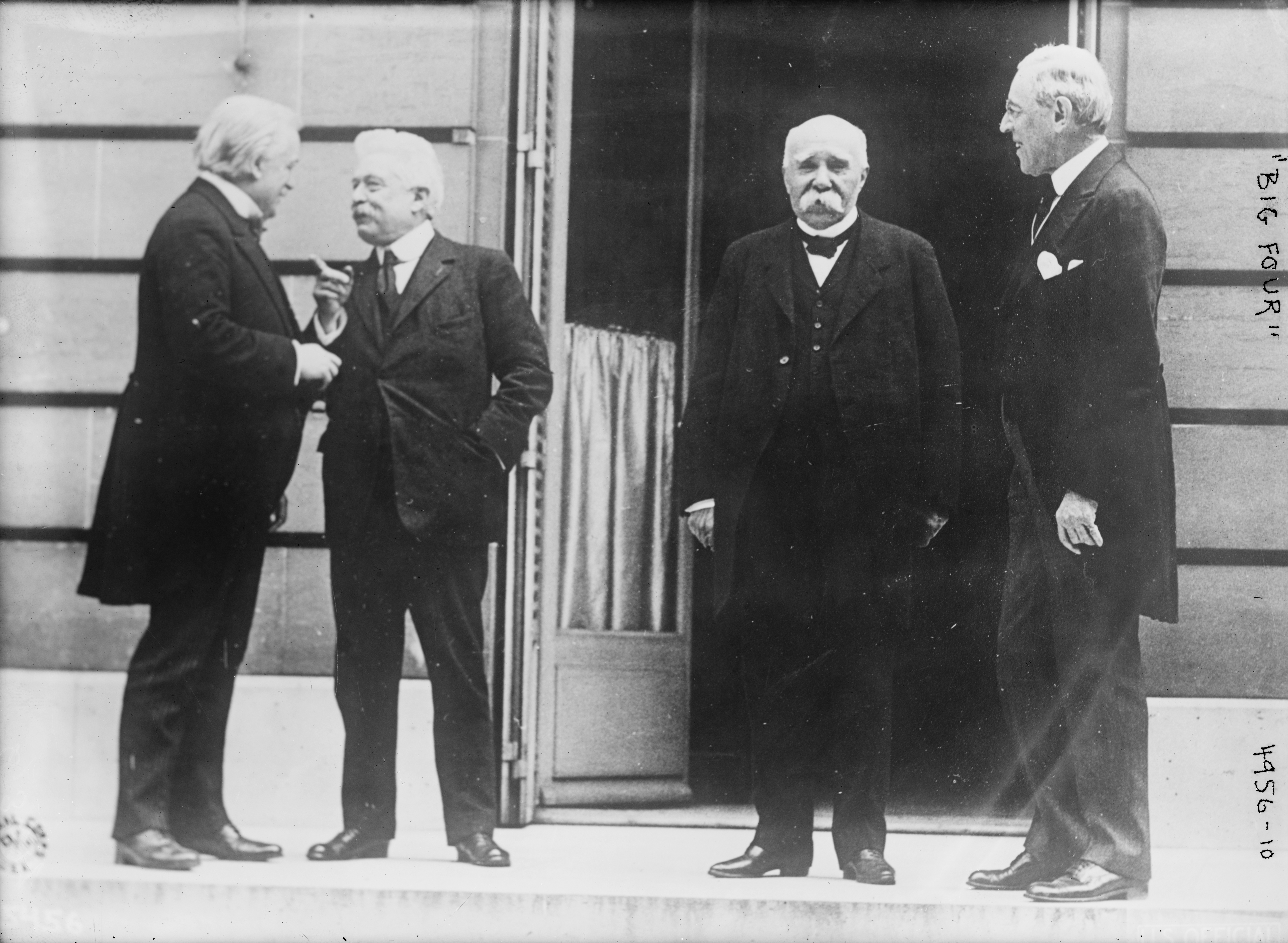 Photograph of the Big Four at the Paris peace conference after World War I on May 27, 1919. From left to right: British Prime Minister David Lloyd George, Italian Premier Vittorio Orlando, French Premier Georges Clemenceau and President of the United States of America Woodrow Wilson. Glass negative 5 x 7 inches or smaller.